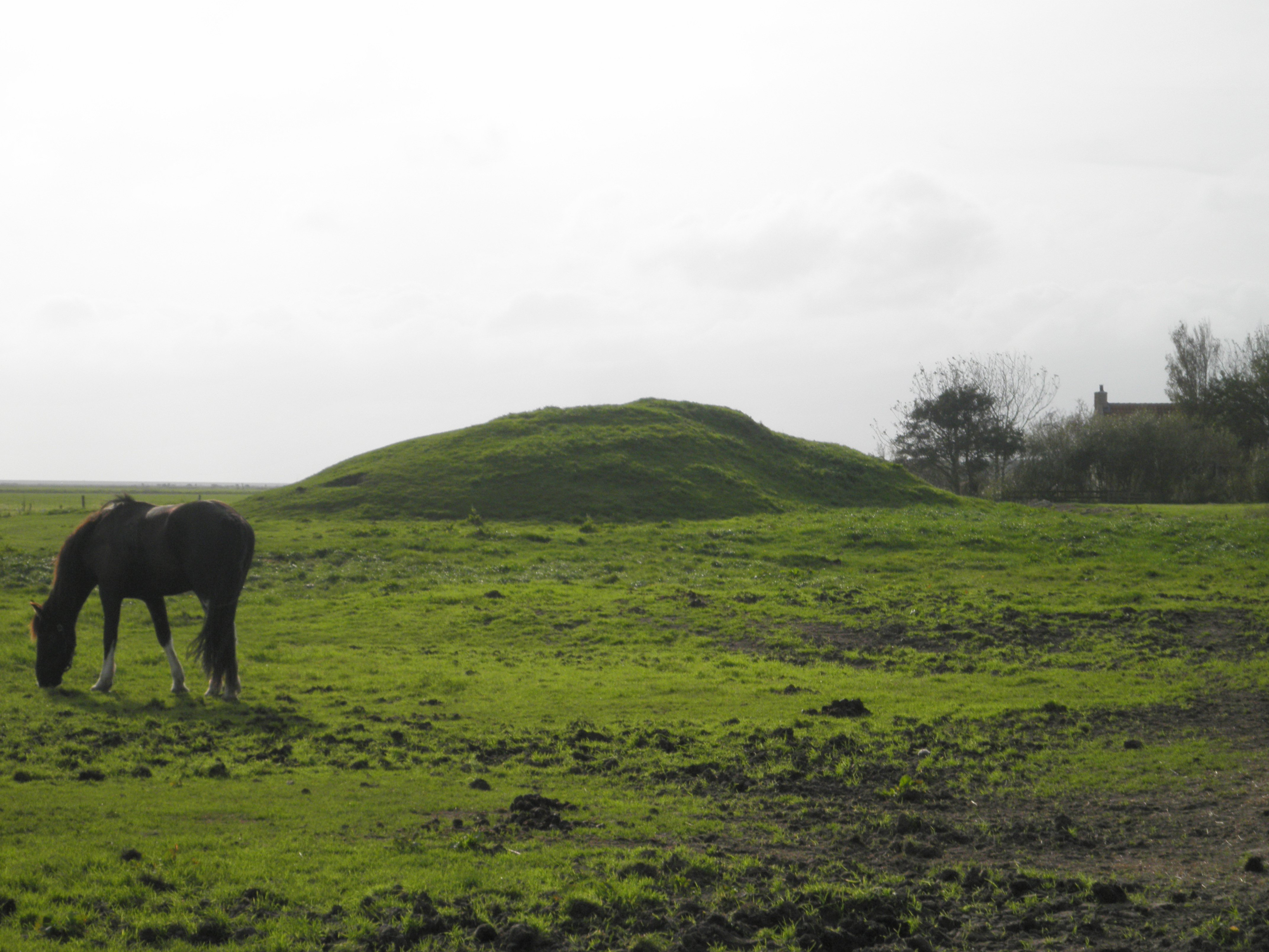 Remains of the motte-and-bailey erected by the Popma family in the Late Middle Ages. Nationally listed archeological heritage.